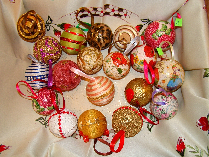 Christmas in Poland